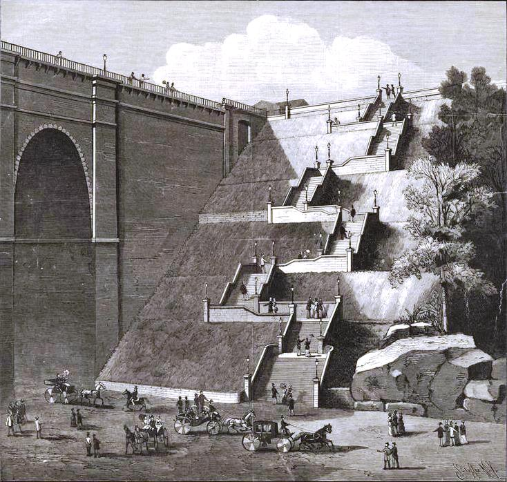 Stone steps at Highbridge Park, leading down to the Harlem River Speedway, 1886.